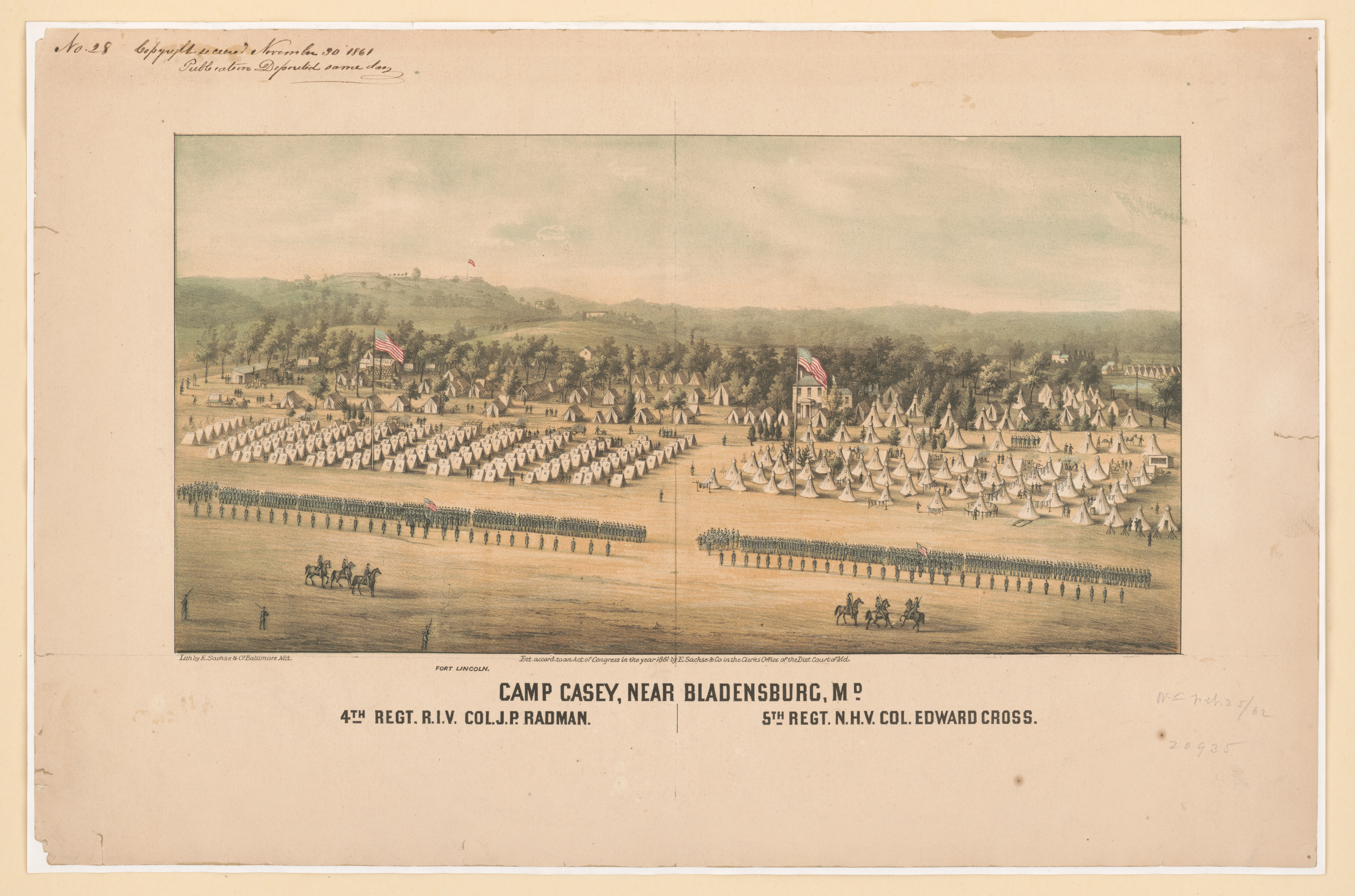 Title: Camp Casey, near Bladensburg, Md Abstract: Camp Casey showing 4th Regt. R.I.V. Col. J.P. Radman, 5th Regt. N.H.V. Col. Edward Cross, and Fort Lincoln in background. Physical description: 1 print : lithograph, color. Notes: lith. by E. Sachse & Co., Baltimore, Md.; Copyright by E. Sachse & Co.